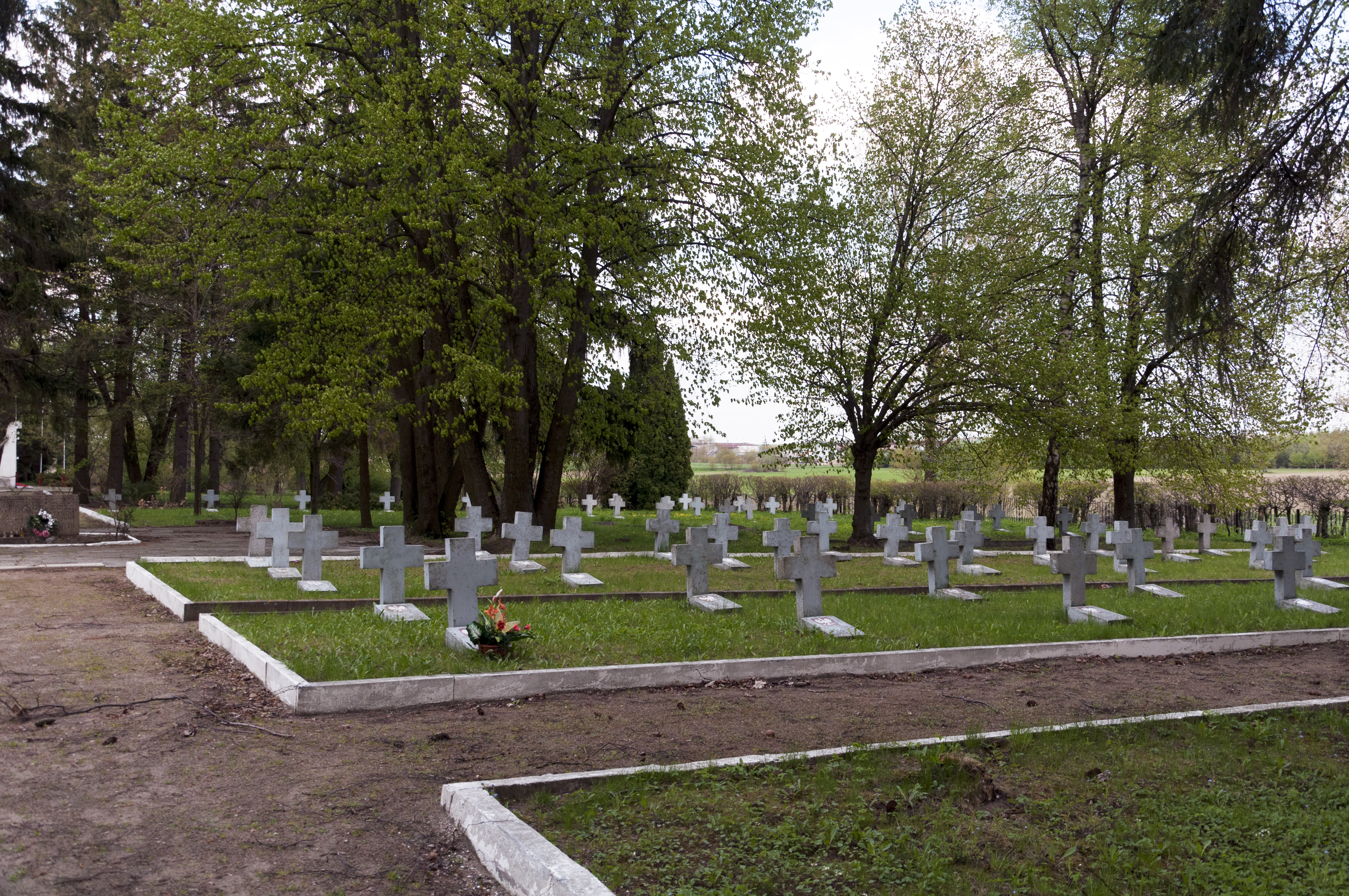 World War II military cemetery in Sudwa, with mass graves of prisoners of the German Stalag I-B Hohenstein